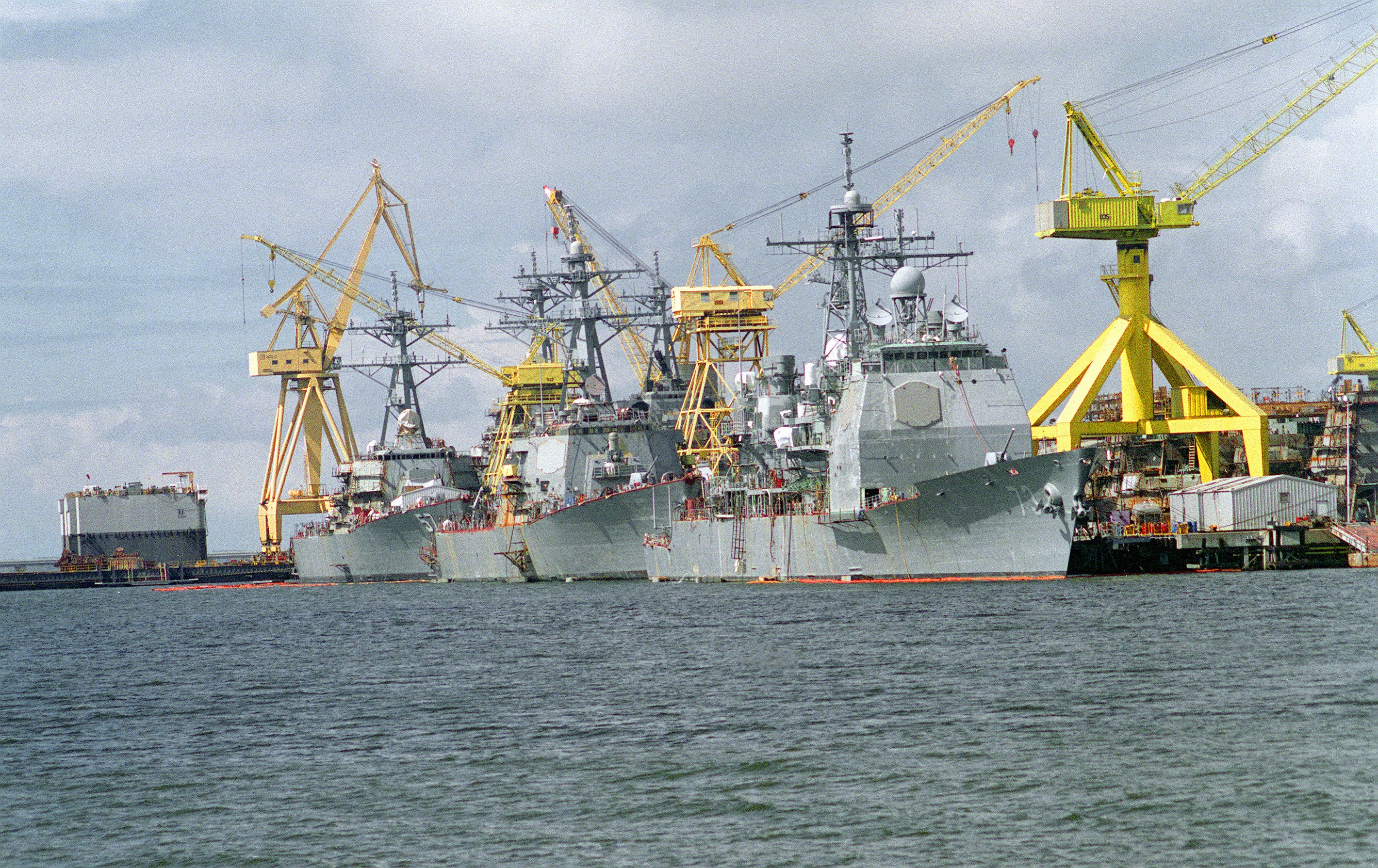 A view of various ships under construction at the Ingalls Shipbuilding shipyard, Pascagoula, Mississippi. Front to back are the guided missile cruiser Port Royal (CG-73), the guided missile destroyer Stout (DDG-55) and the guided missile destroyer Mitscher (DDG-57). Inboard of Stout is the guided missile destroyer Ramage (DDG-61) and inboard of Mitscher is the guided missile destroyer Russell (DDG-59).